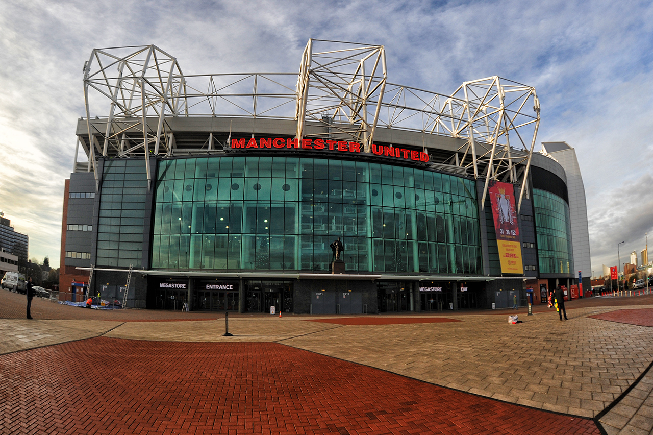 Old Trafford in Stretford, Greater Manchester, England, United Kingdom